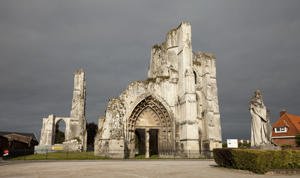 Abbaye Saint-Bertin; Saint-Omer; Nord-Pas-de-Calais, Pas-de-Calais, France; ref: PM_050583_F_Saint_Omer; ; Ruines de l'église, façade occidentale; Photographer: Paul M.R. Maeyaert; © Paul M.R. Maeyaert; ; Cultural heritage; Europe/France/Saint-Omer; LoCloud selectie